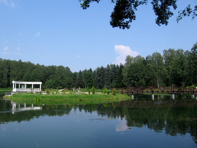 Лебединое озеро